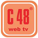 Logo Canale48 Web TV 2011